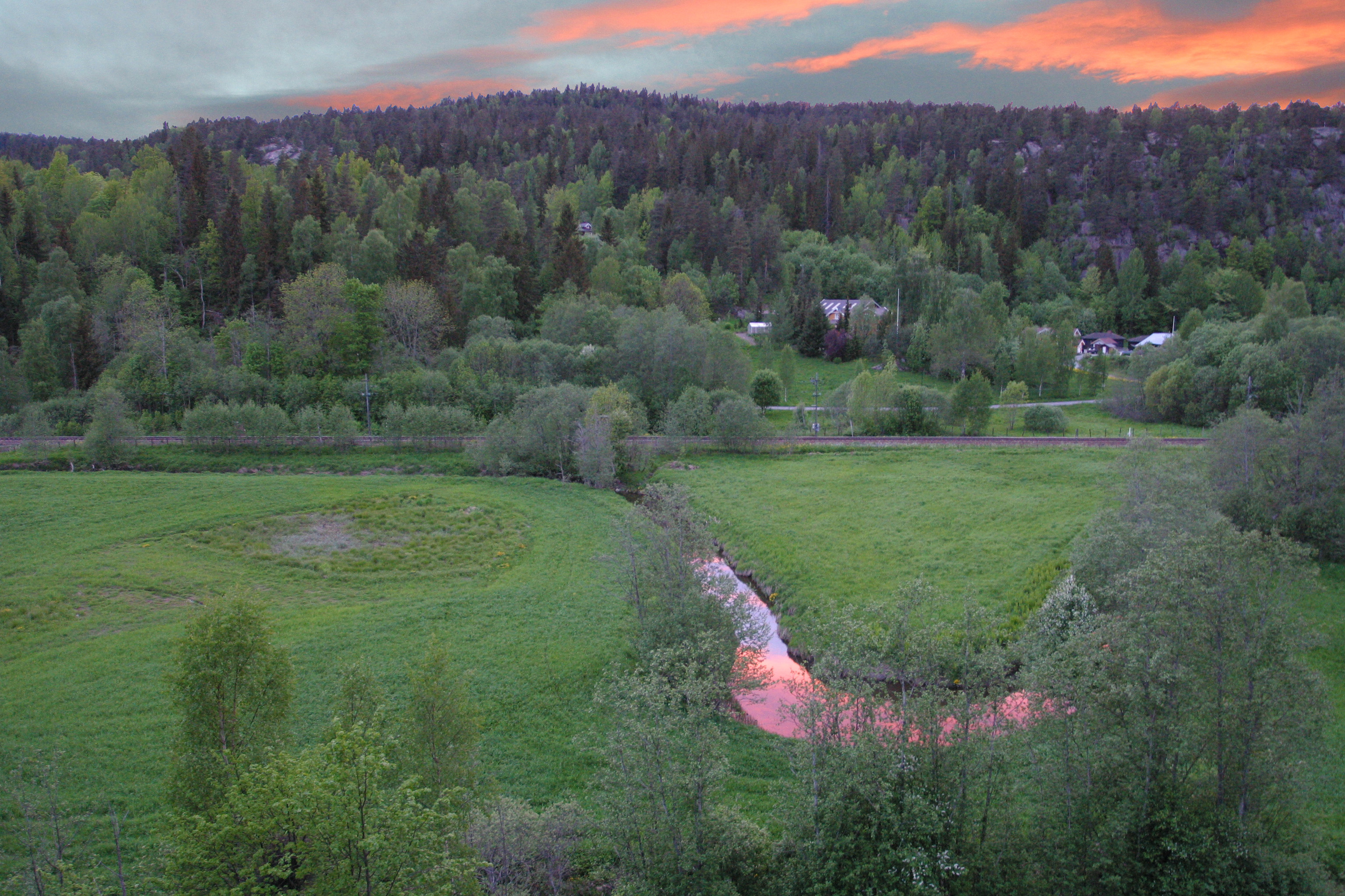 Picture of Skithegga river (Akershus - Norway)